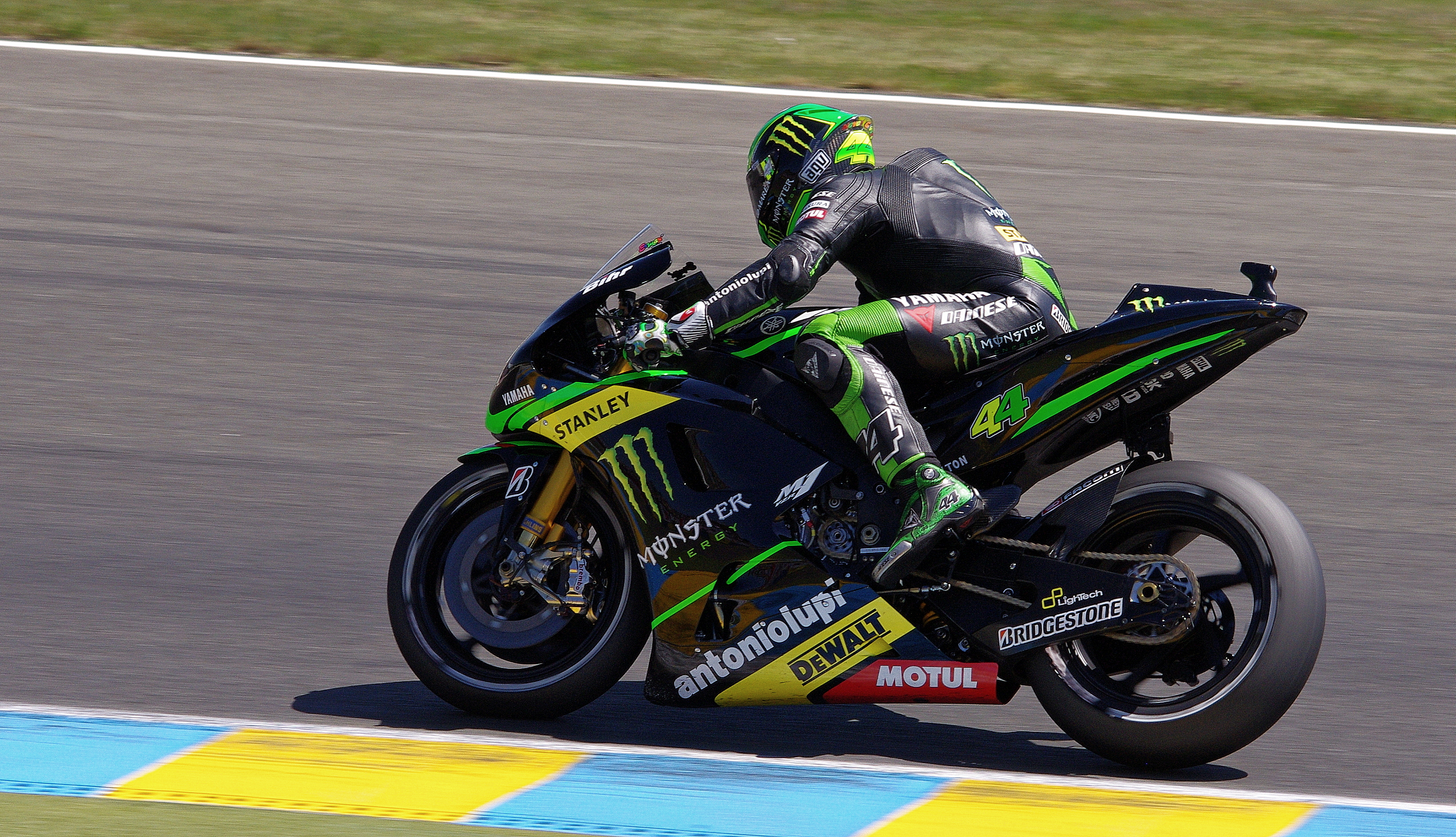 Pol ESPARGARO - Monster Yamaha Tech 3 - MotoGP 2014 - Le Mans 2014 french motorcycle Grand Prix at Le Mans Bugatti Circuit